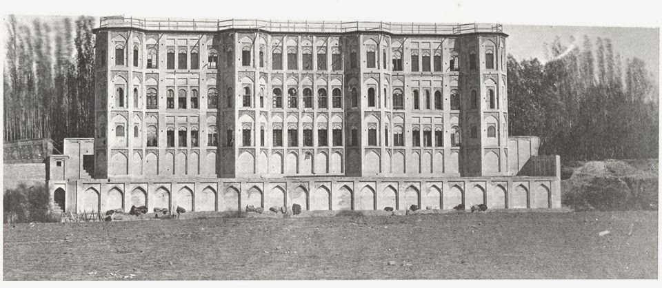 Emadieh Palace, one of Dowlatshahi family seats in Kermanshah